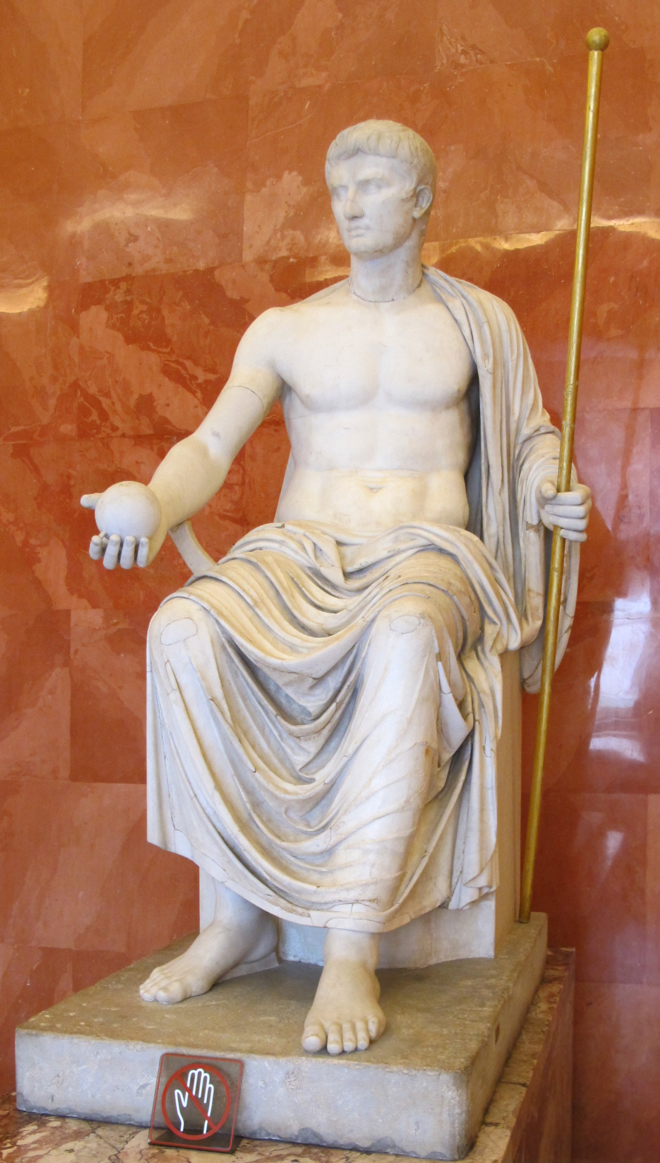 Ancient Roman statue of Emperor Augustus as Jove (i.e. Jupiter), first half of the 1st century AD.